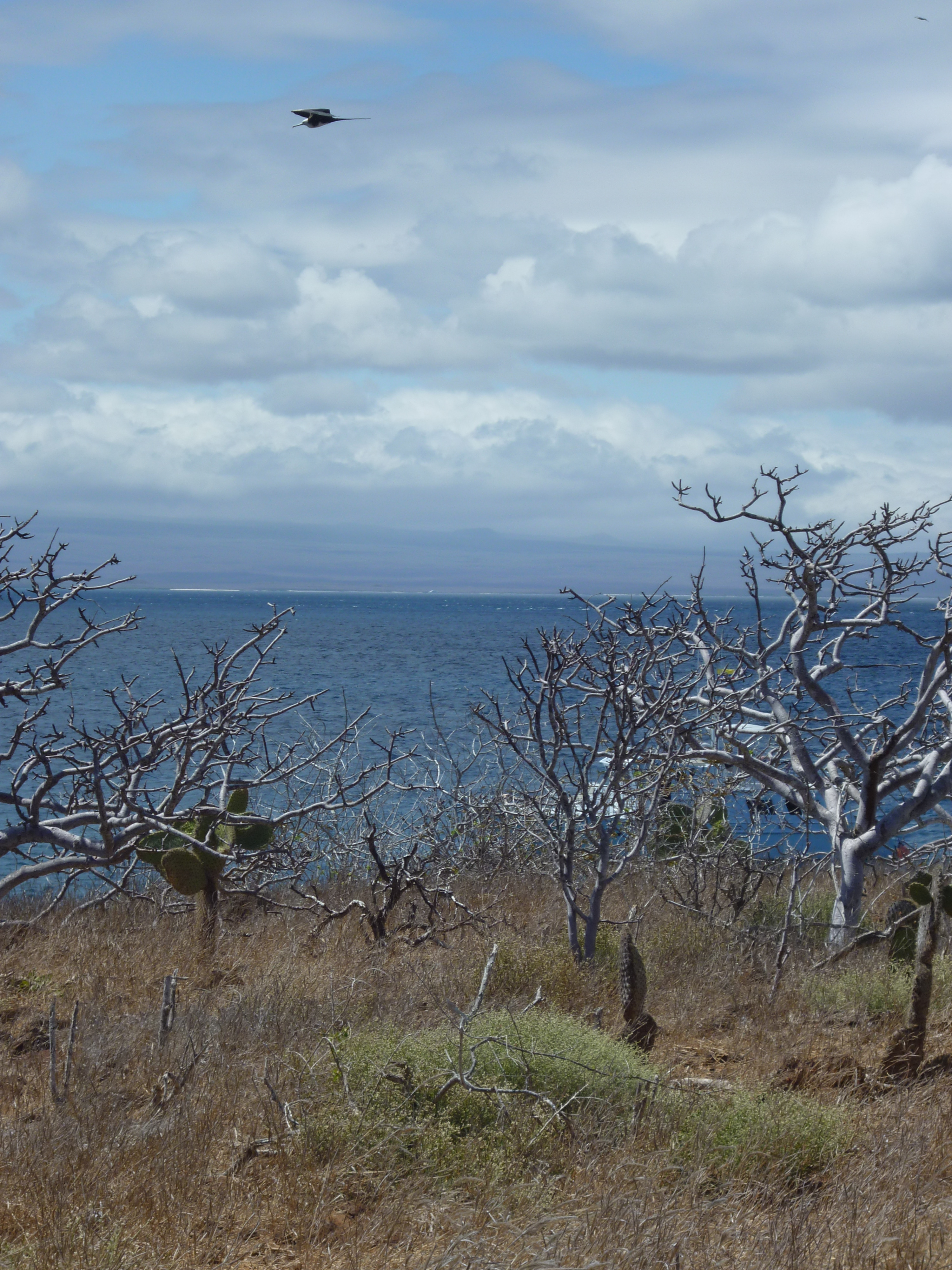 North Seymour Island Galapagos photo by Alvaro Sevilla Design